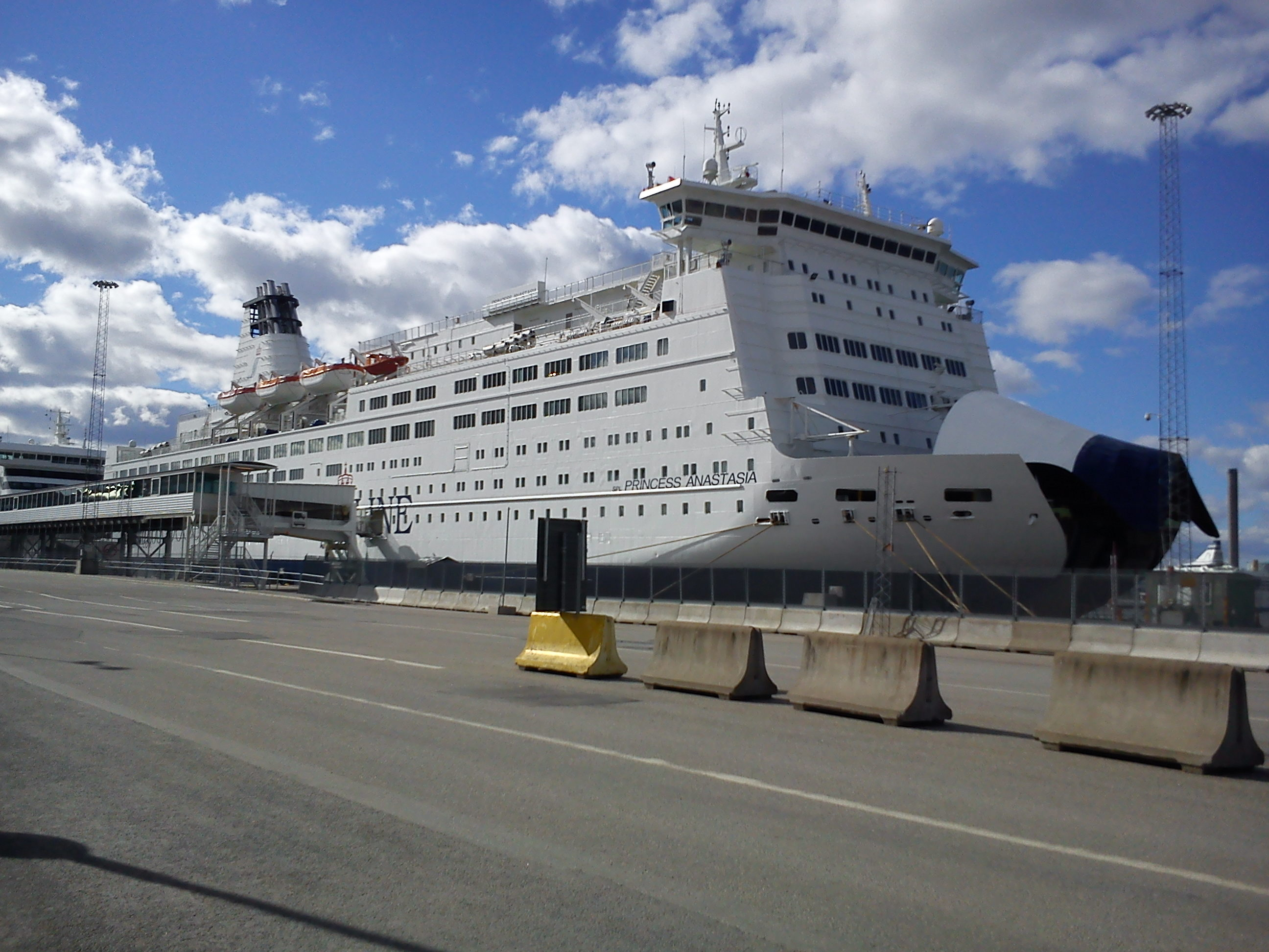 Ferry SPL Princess Anastasia at Quay